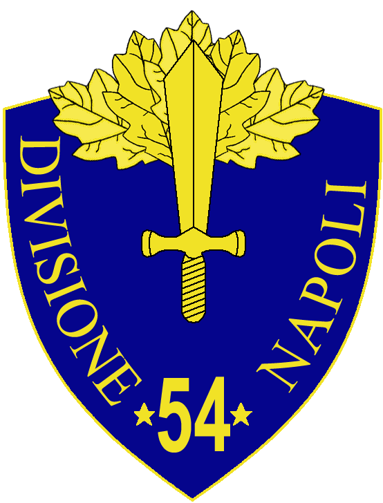 54a Divisione Fanteria Napoli insignia, Regio Esercito, Italy, WWII